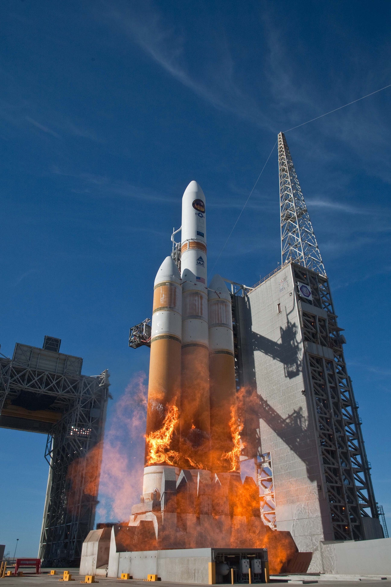 A United Launch Alliance Delta IV Heavy launches with a National Reconnaissance Office payload at Space Launch Complex-6 at 1:10 p.m. PST. The Delta IV Heavy is the largest rocket ever launched from the west coast of the U.S. standing 235 feet tall and producing nearly two million pounds of thrust at liftoff. The Delta IV Heavy is America’s most powerful liquid-fueled rocket. This was the fifth launch of a Delta IV heavy in program history.